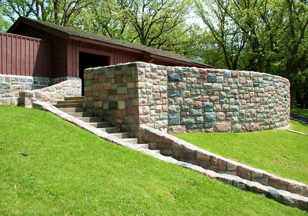 Beachhouse and double staircase to swimming area built by the Works Progress Administration 1939–1940, Lake Shetek State Park, Minnesota, USA